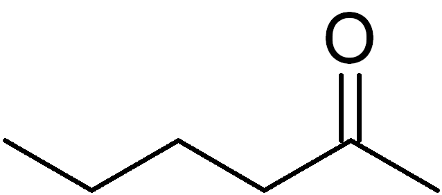 2-Hexanone